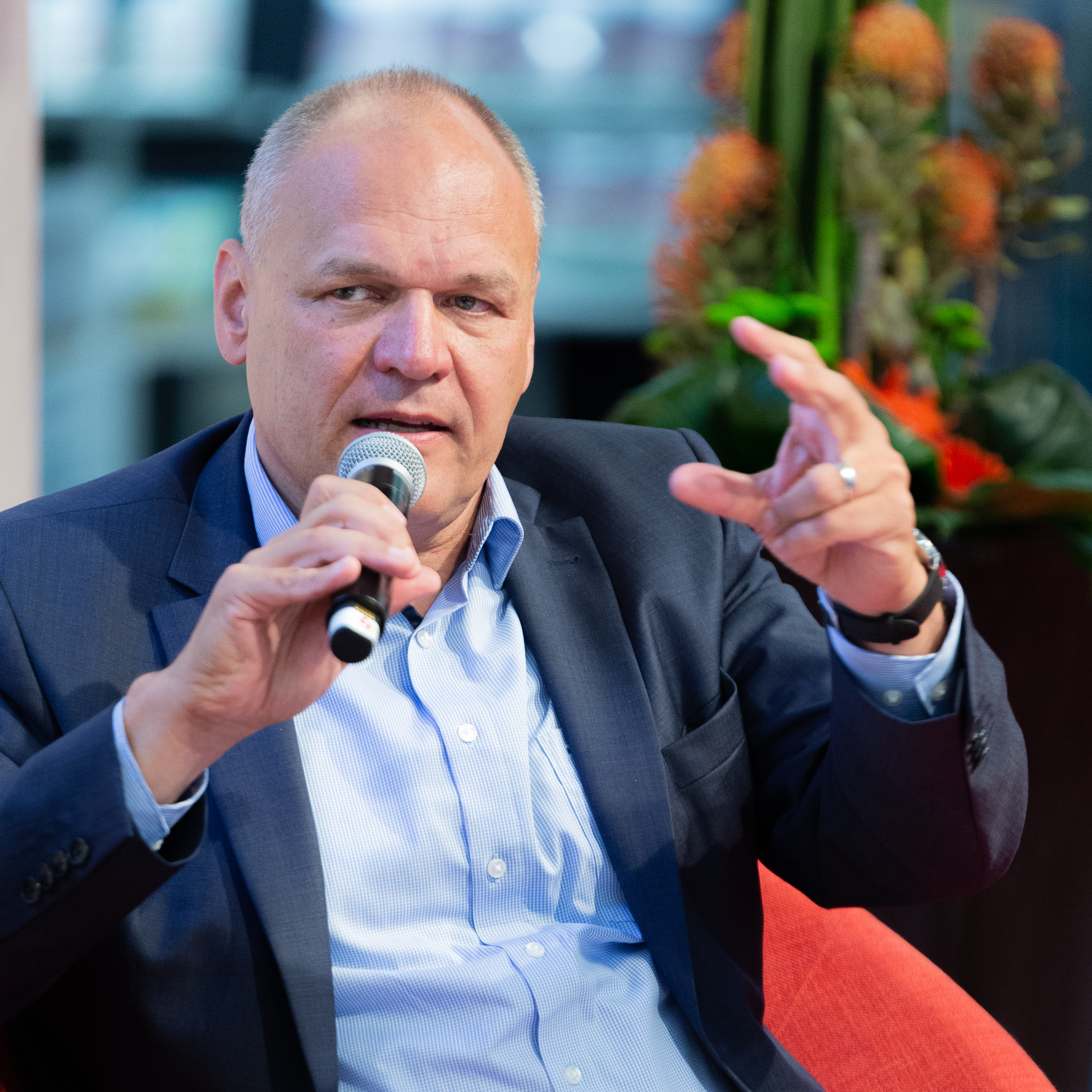 Johannes Ebertl at the Frankfurt Book Fair 2018